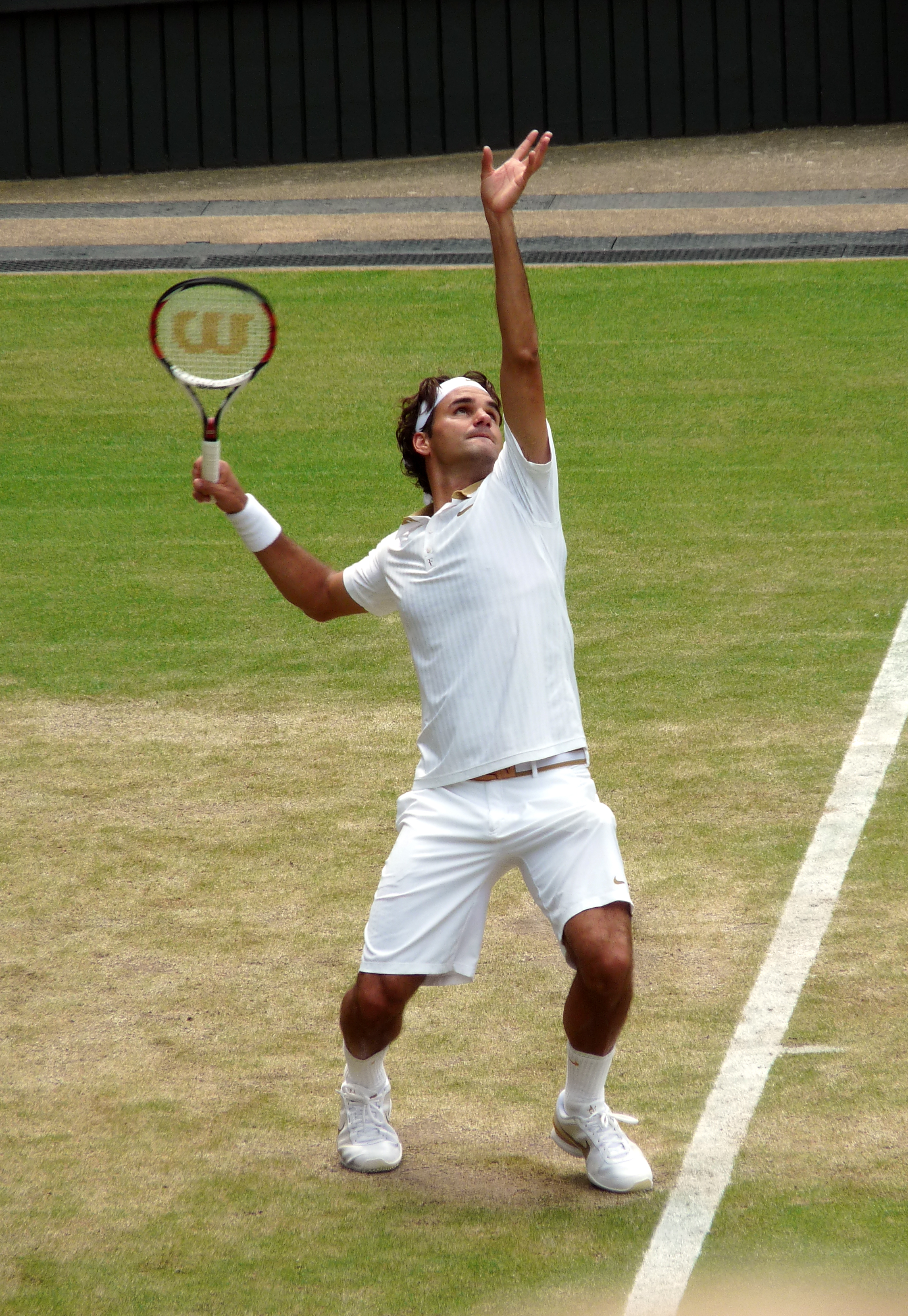 I'm quite chuffed with how the camera coped, considering we were quite far back and I was lacking in tripod!